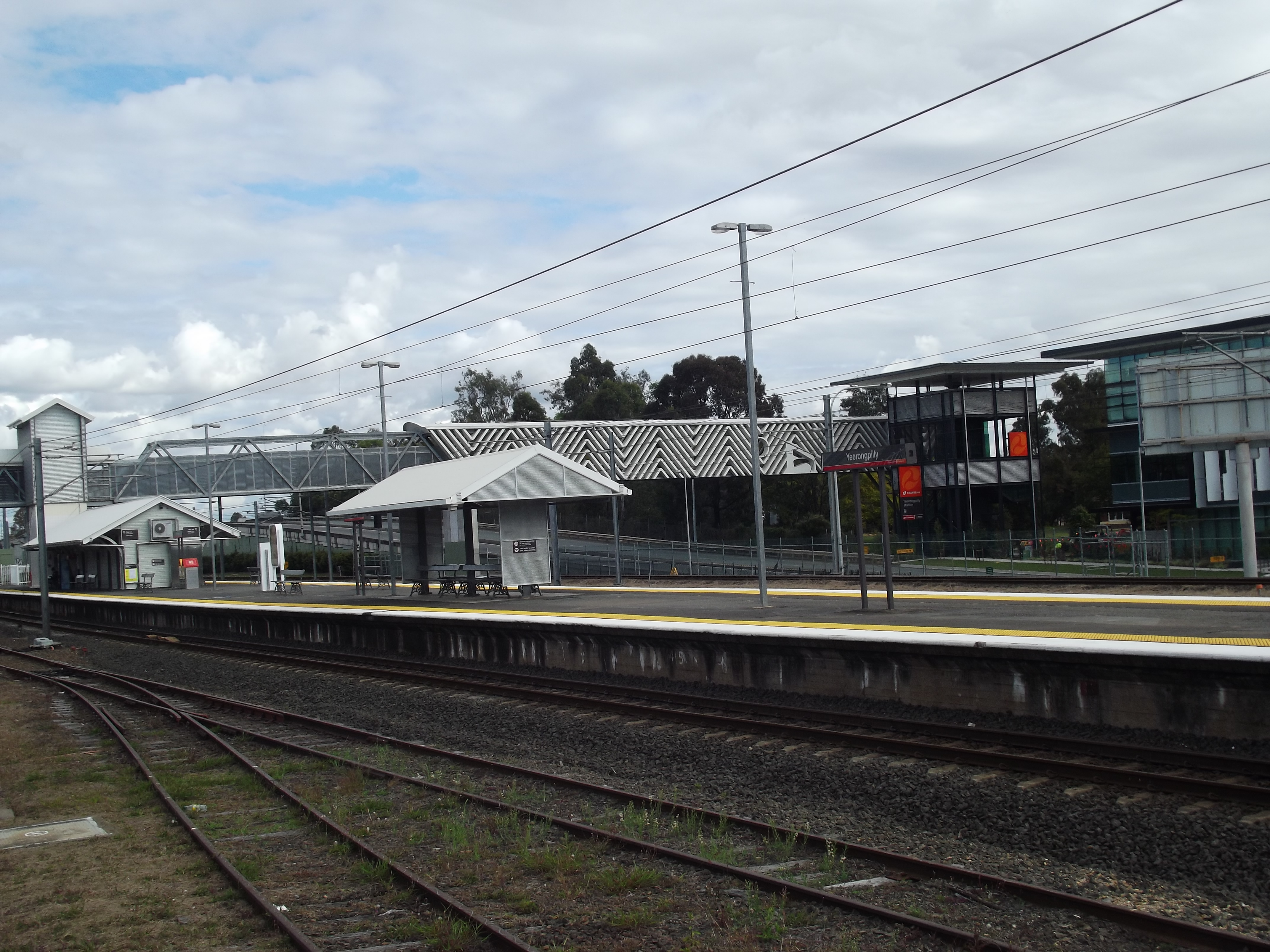 A photo of the Yeerongpilly railway station, operated by TransLink, located in Brisbane, Australia.